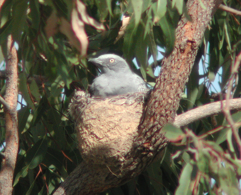 Ground Cuckoo-shrike (Coracina maxima) Atkinson's Dam, SE Queensland, Australia